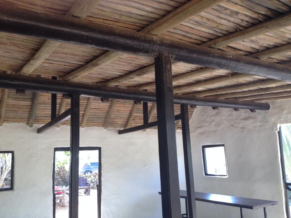 Participant Nina Alg